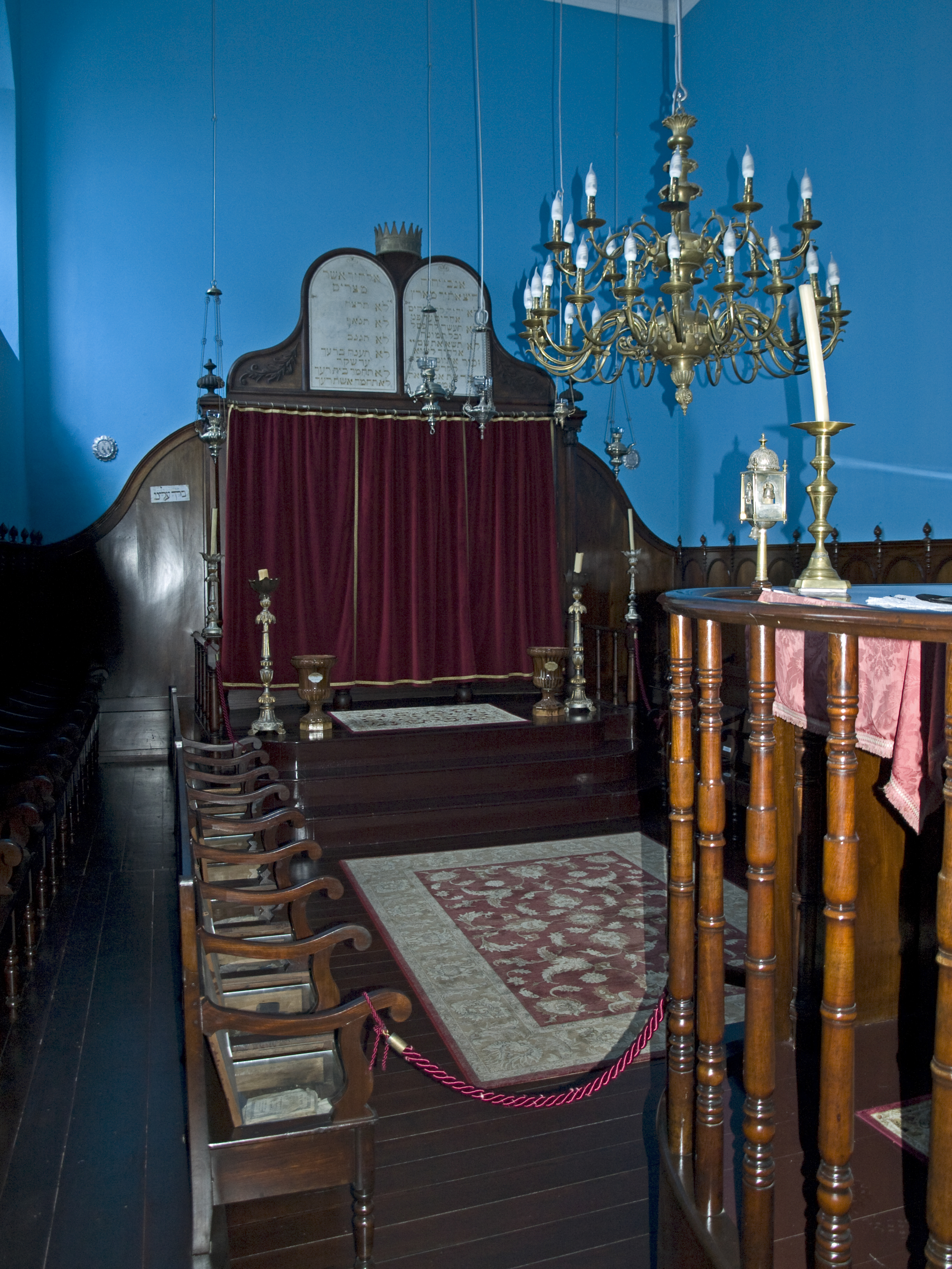 Prayer hall, Sahar Hassamain Synagogue, Ponta Delgada